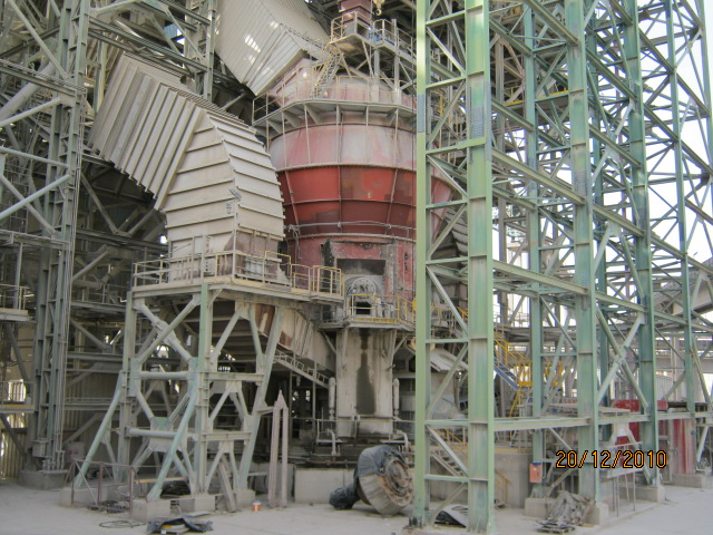 Raw Mill - Nesher cement, Ramla, Israel